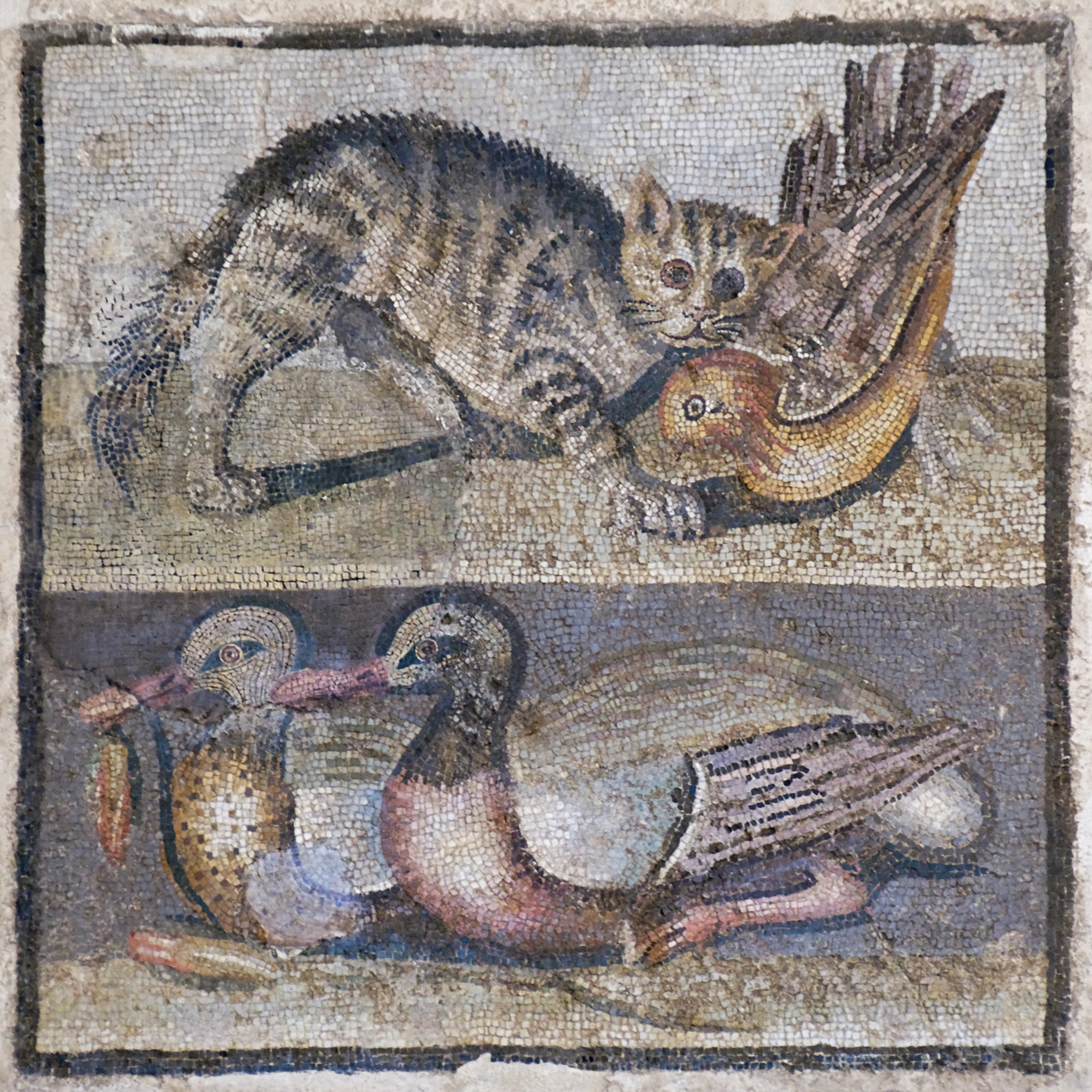 Central panel of a floor mosaic with a cat and two ducks. Opus vermiculatum, Roman artwork of the late Republican era, first quarter of the 1st century BC.